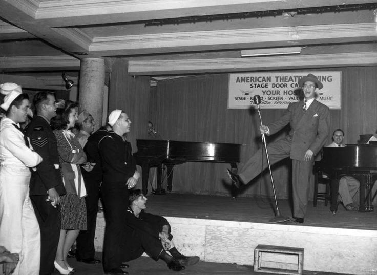 Comedian on stage, entertaining service members at the Stage Door Canteen in New York CityBroadway entertainment for the armed forces of all nations at the Stage Door canteen, run by the American Theater wing. Actors wait on soldiers and sailors who eat and are entertained free.